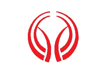 Flag of Yukuhashi Fukuoka